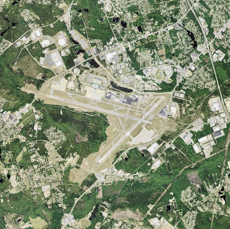 USGS digital orthophoto of Columbia Metropolitan Airport in South Carolina